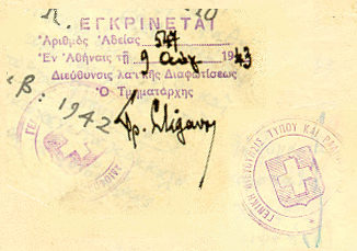 Approval by the Greek State Censorship Commitee of a Greek fiction book by Fotis Kontoglou at 1943. The whole of this front page can be found here.